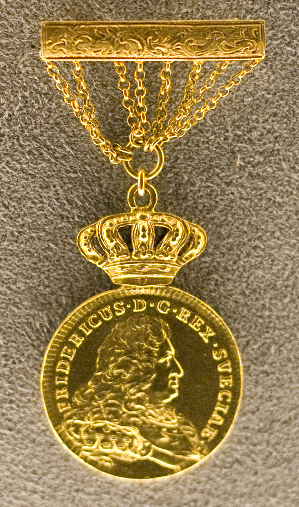 The Seraphim Medal is awarded for outstanding services of a humanitarian nature or of general benefit to society. The medal is connected to the swedish royal Royal Order of the Seraphim. The medal's obverse shows the profile of king Frederick I of Sweden. Exhibition at Stockholm Palace